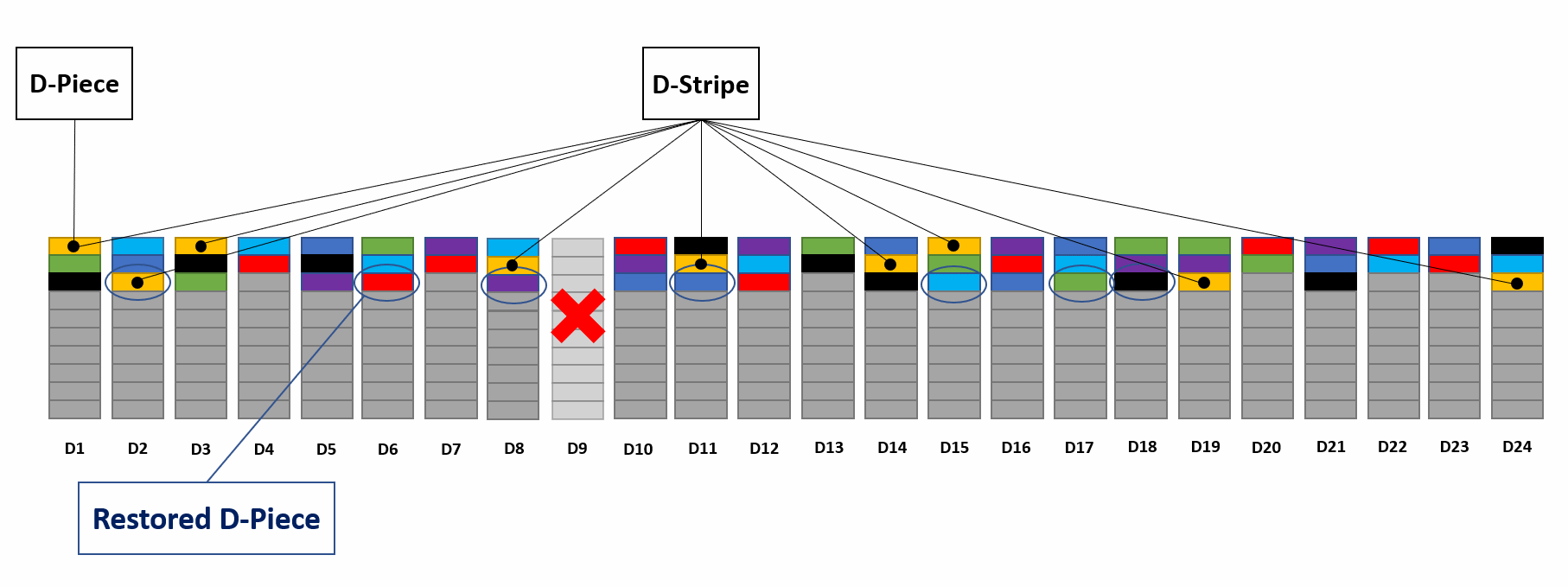 DDP components and data reconstruction process